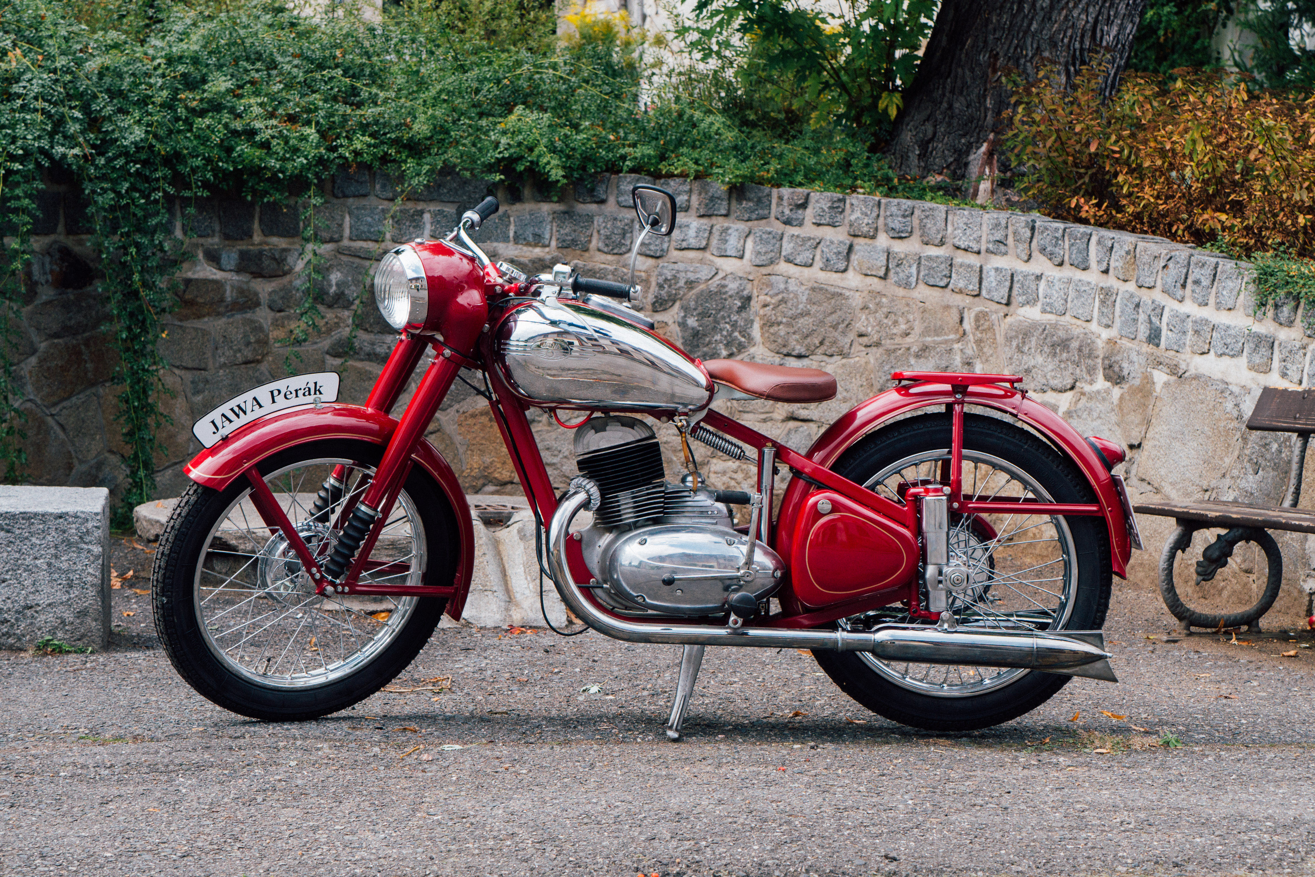 So beautiful and so simple. But it was pain to ride on.